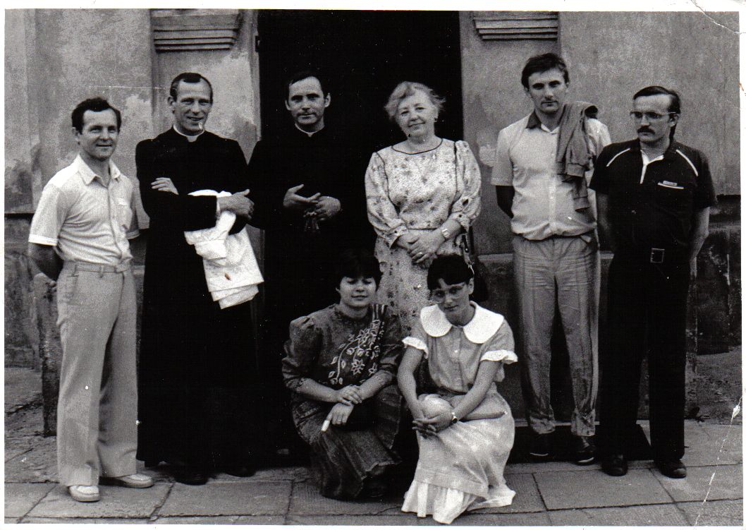 Jerzy Jablonski and members of the Confederation of Independent Poland (KPN)